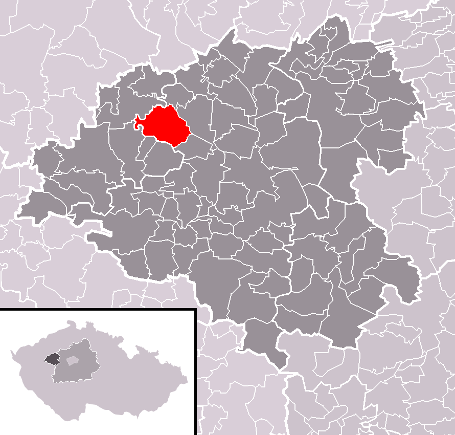 Location of Kolešovice municipality within Rakovník District and (identical) administrative area of Rakovník as a Municipality with Extended Competence.